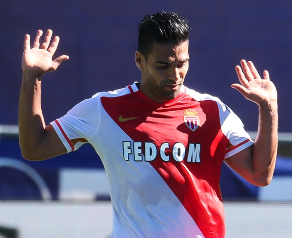 Radamel Falcao